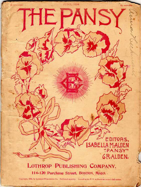 Isabella Macdonald Alden's The Pansy